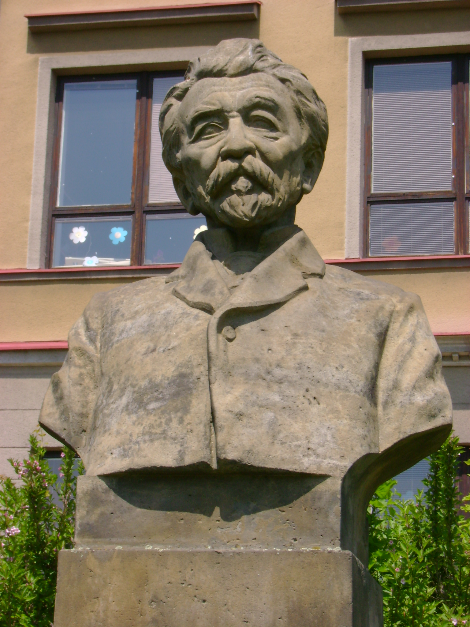 Karel Václav Rais (1859–1926) – a statue located outside the Elementary School "Na Habru" in Hořice, Czech Republic. Sculptor: Jaroslav Plichta (1886–1970).